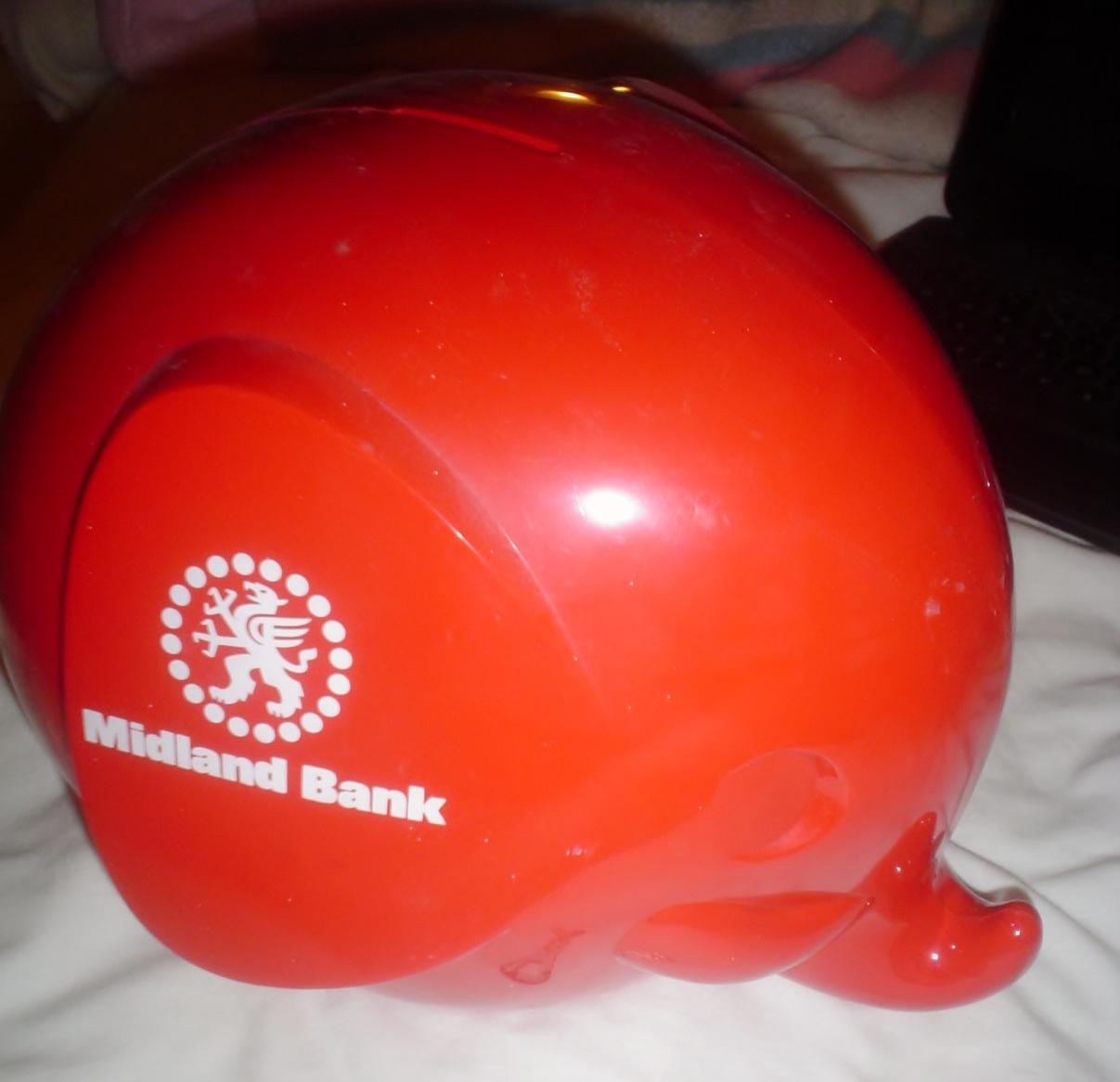 Promotional Money Box issued by Midland Bank.